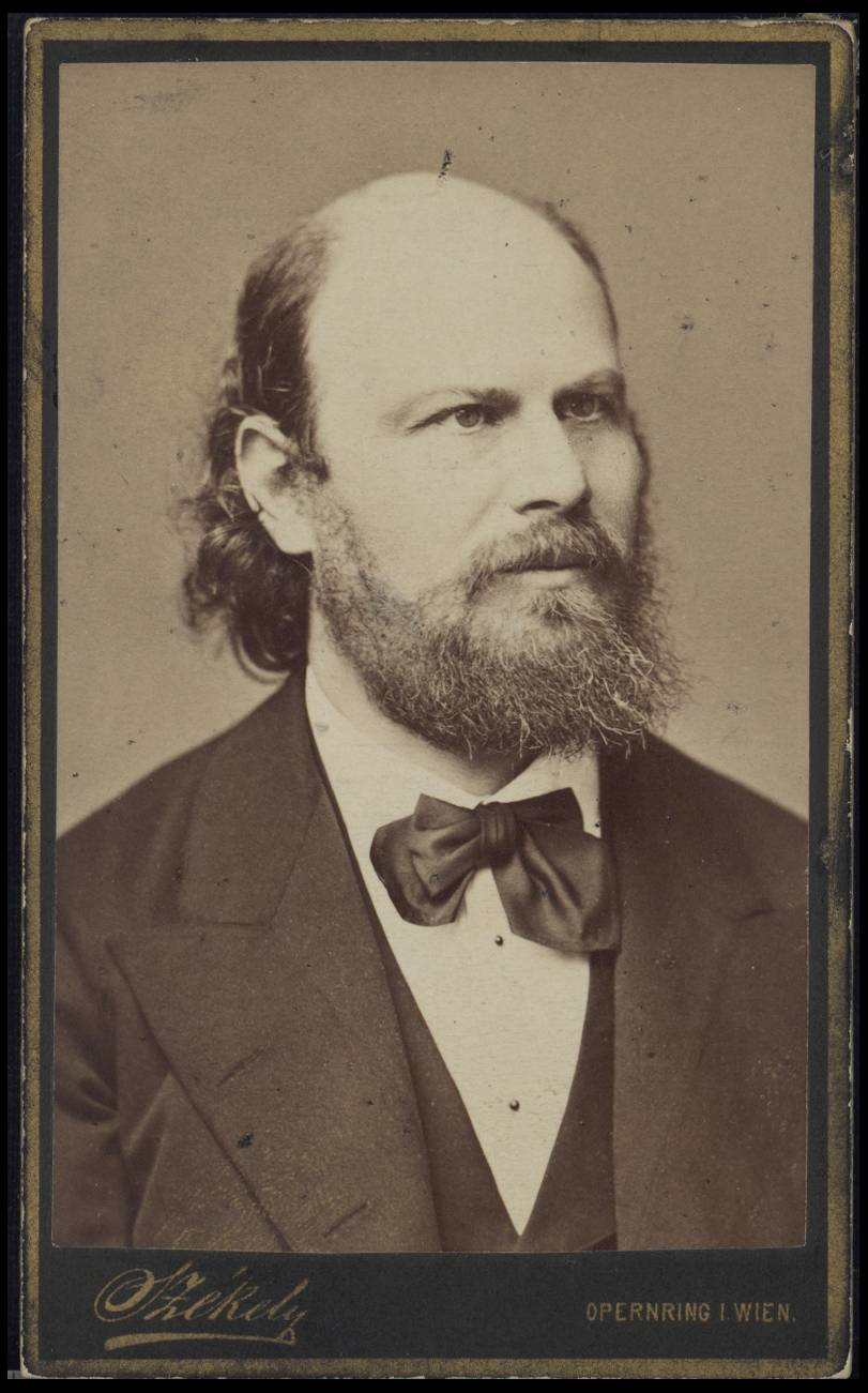 Picture of Julius Anton Glaser